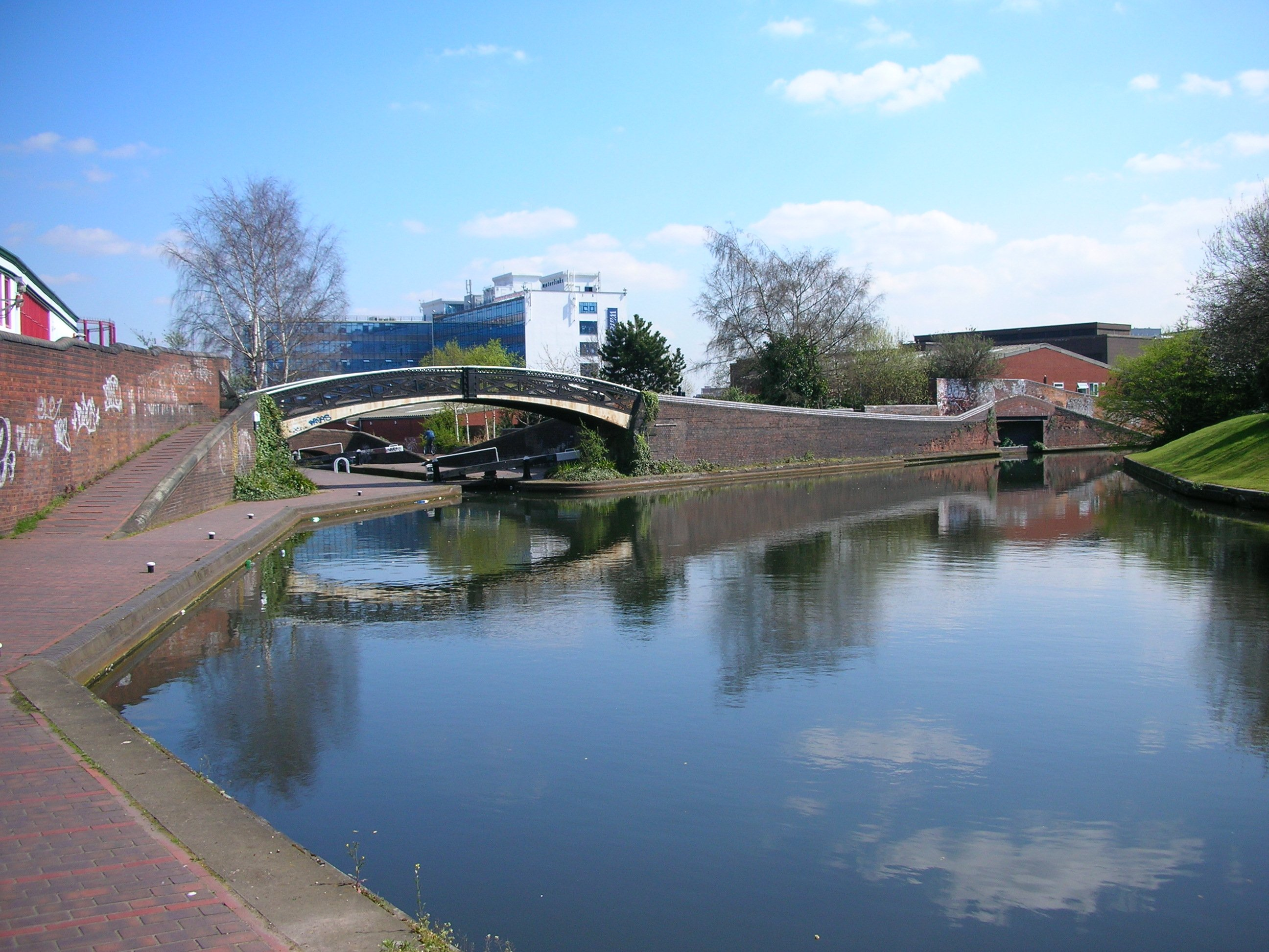 Aston Junction in Birmingham, England. The junction of the Digbeth Branch Canal (top right) with the Birmingham and Fazeley Canal (lower right and exiting left, through the Horseley Ironworks bridge and lock). Photographed by me 11 April 2007. Oosoom